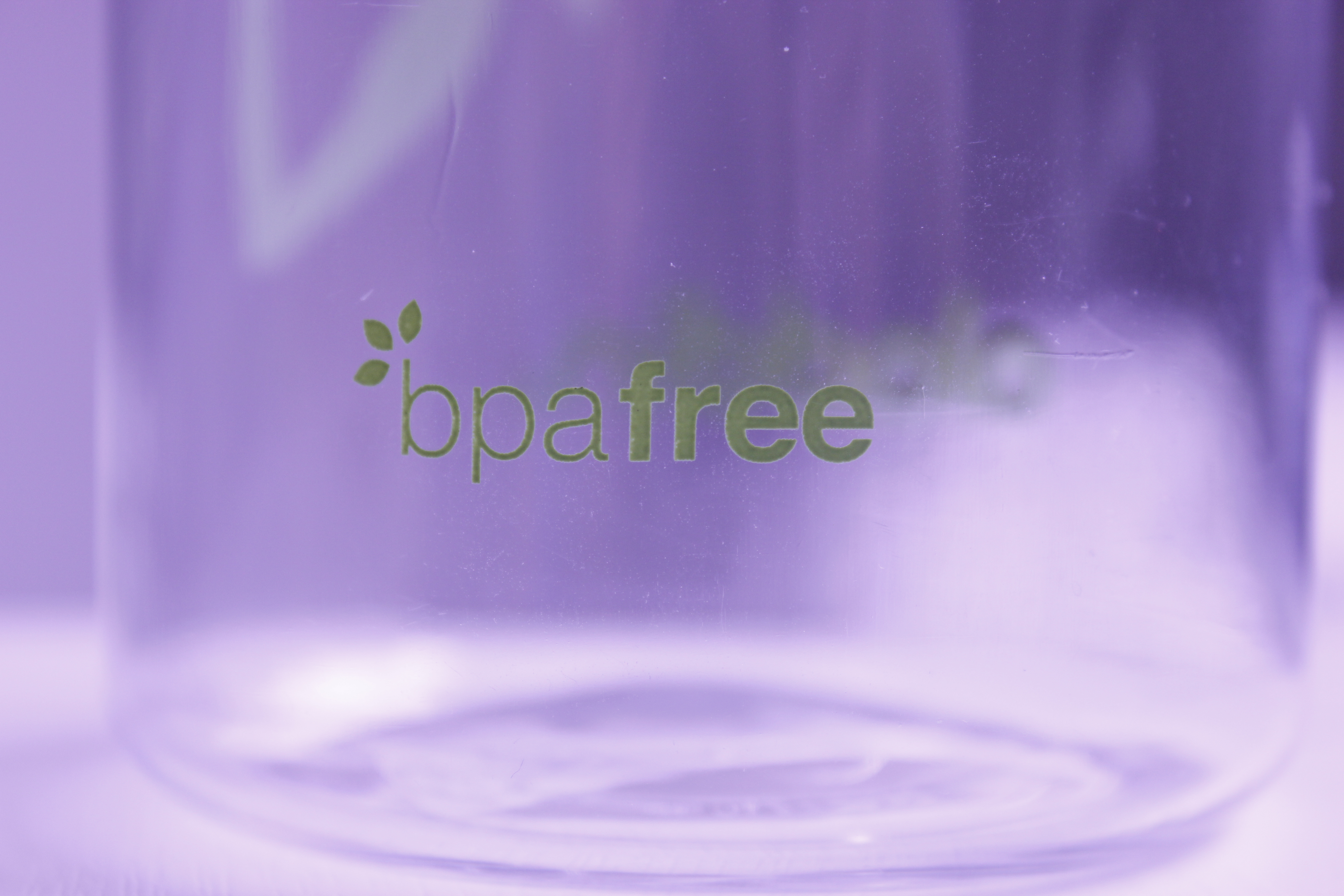 BPA-Free Bottle မြန်မာဘာသာ: ဘီပီအေ ကင်းဆင်သည့် ရေဗူး